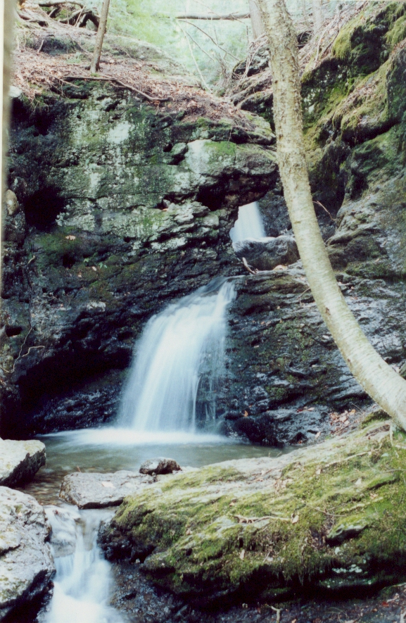 Roaring Brook Falls. Mount Toby by Paul Gagnon 2004.